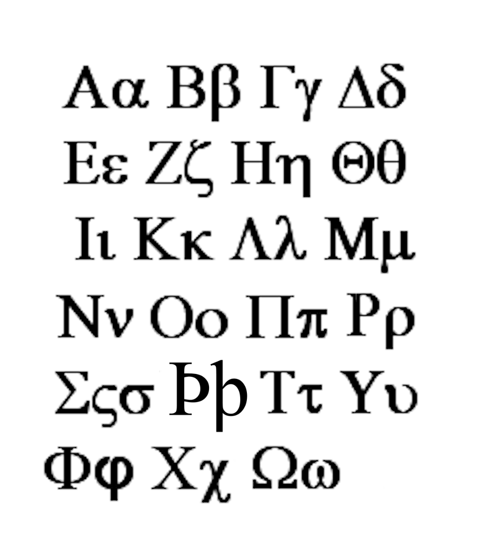 Bactrian alphabet